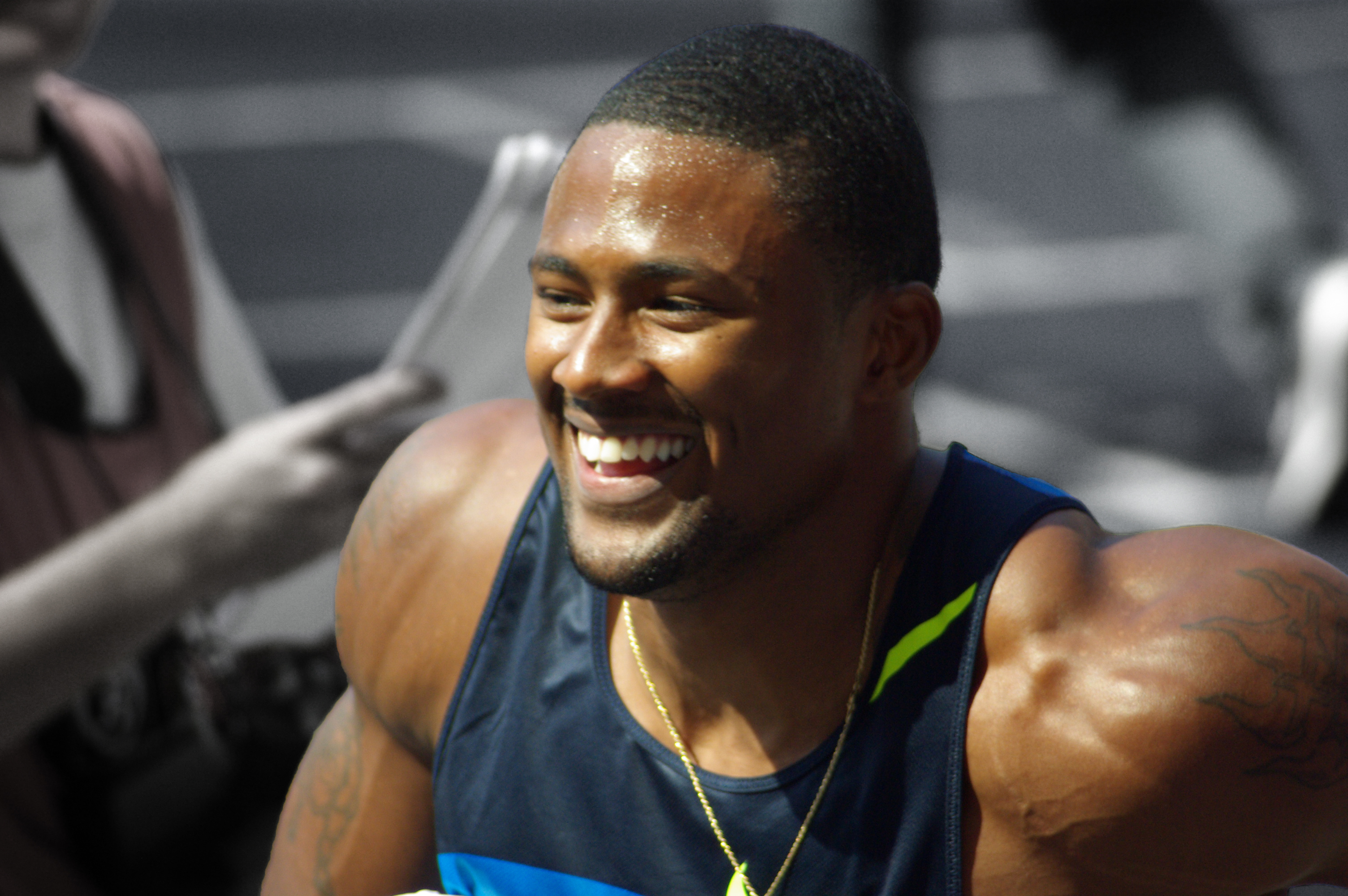 American hurdler David Oliver at ISTAF meeting Berlin, 2008